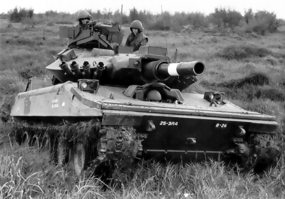 M551 Sheridan and crew members of the 3d Squadron, 4th Cavalry, Vietnam